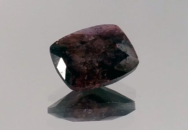 Faceted Gadolinite-(Y), 2.09 ct, from USA